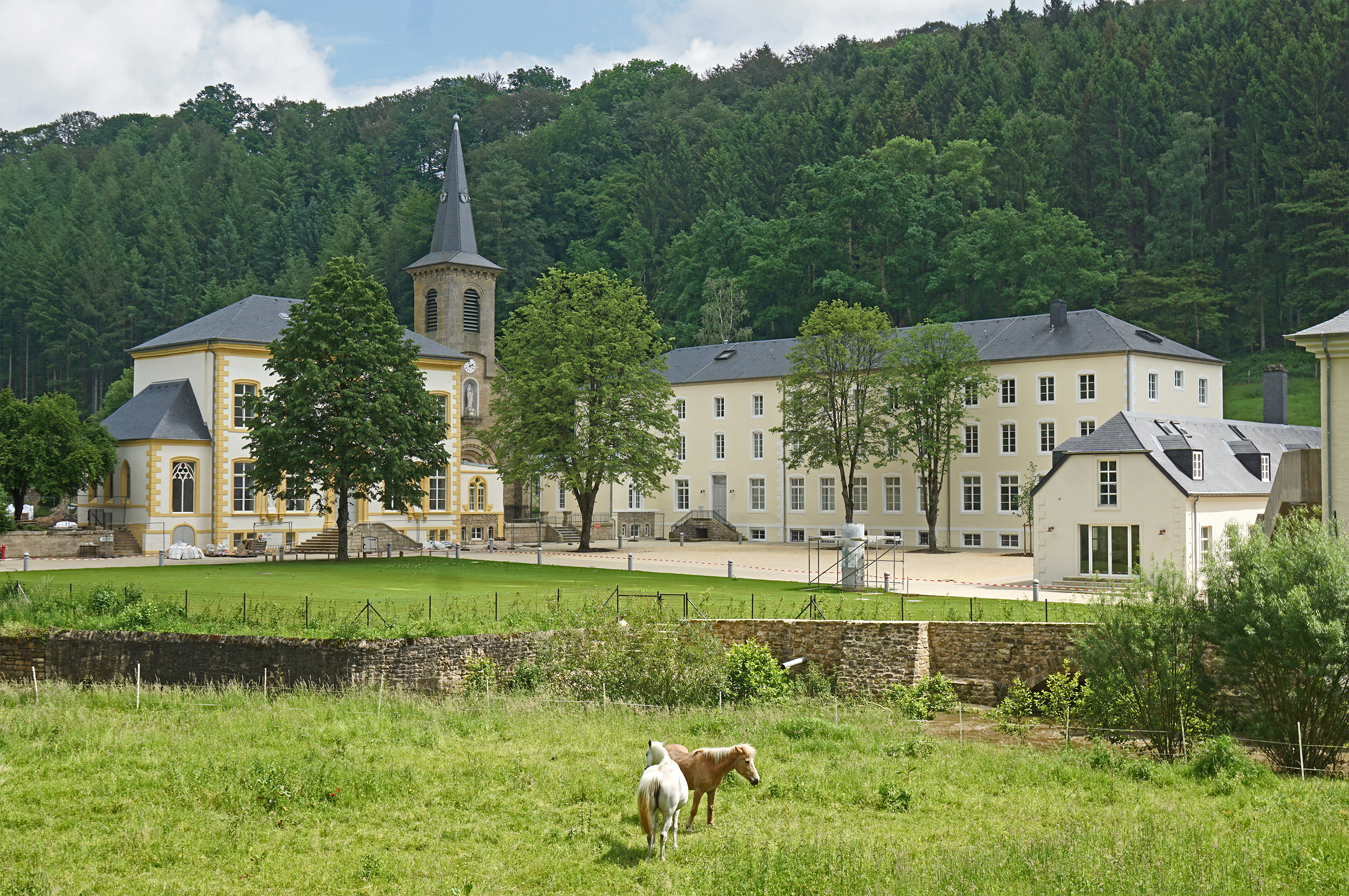 The former Marienthal convent